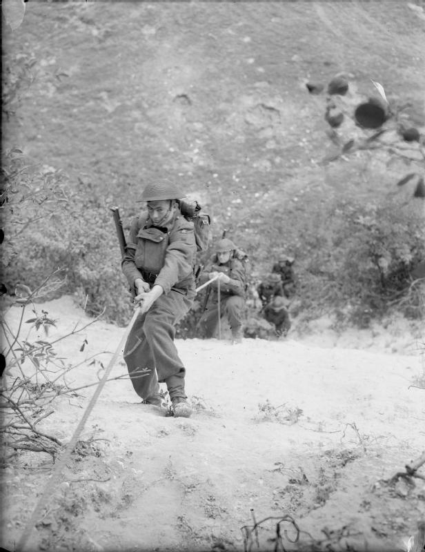 The British Army in the United Kingdom 1939-45 Soldiers of the 4th Battalion, Wiltshire Regiment climbing up the sheer face of a chalk quarry during 'toughening up' training at Leeds in Kent, 18 September 1941.